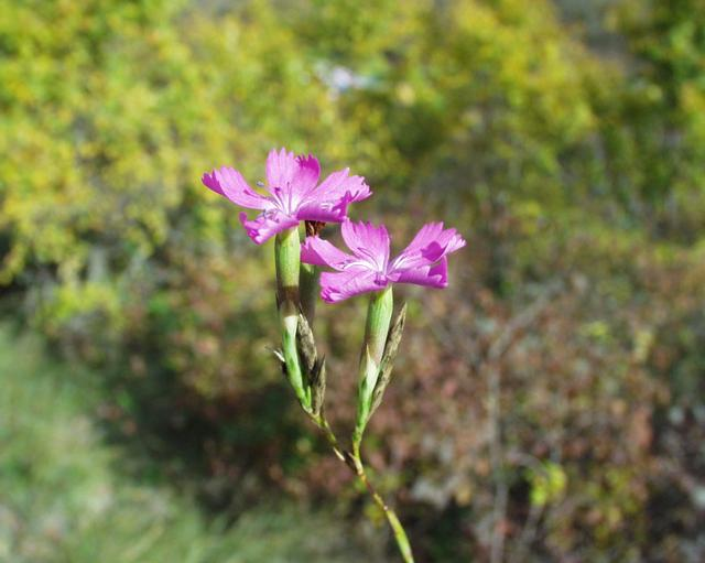 Dianthus caryophyllus, a photography originating of the internet site The accord of the autor, H. Brisse, is here.